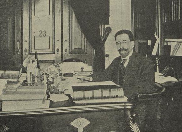 The Portuguese Minister of Finance, José Relvas, in his office. Photograph from the "O Occidente" magazine, dated 30 March 1911.